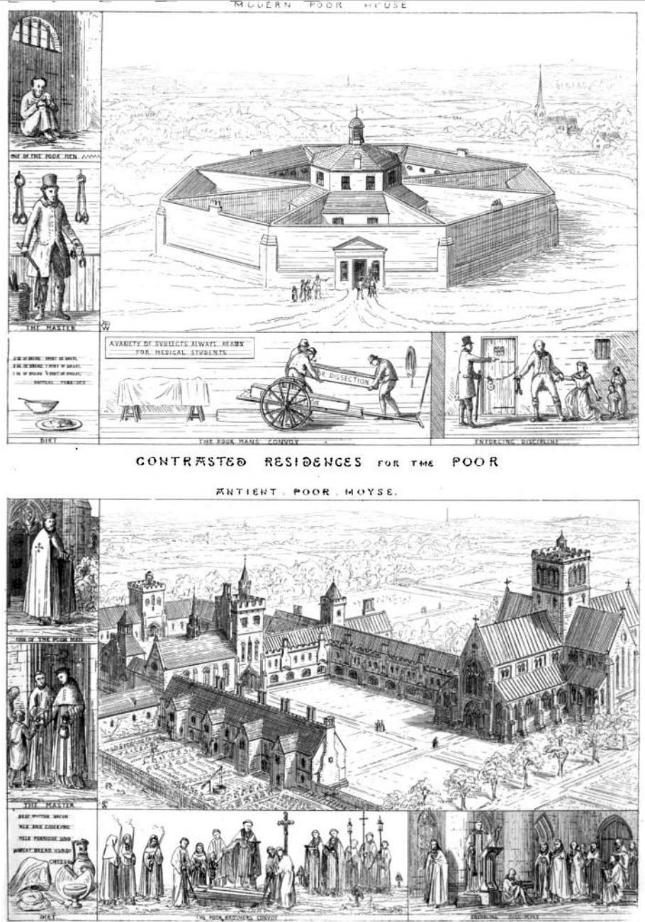 A comparison by Augustus Pugin of the new 1834 Workhouse plan, with his romanticised ideal of "ye olde workhouse"